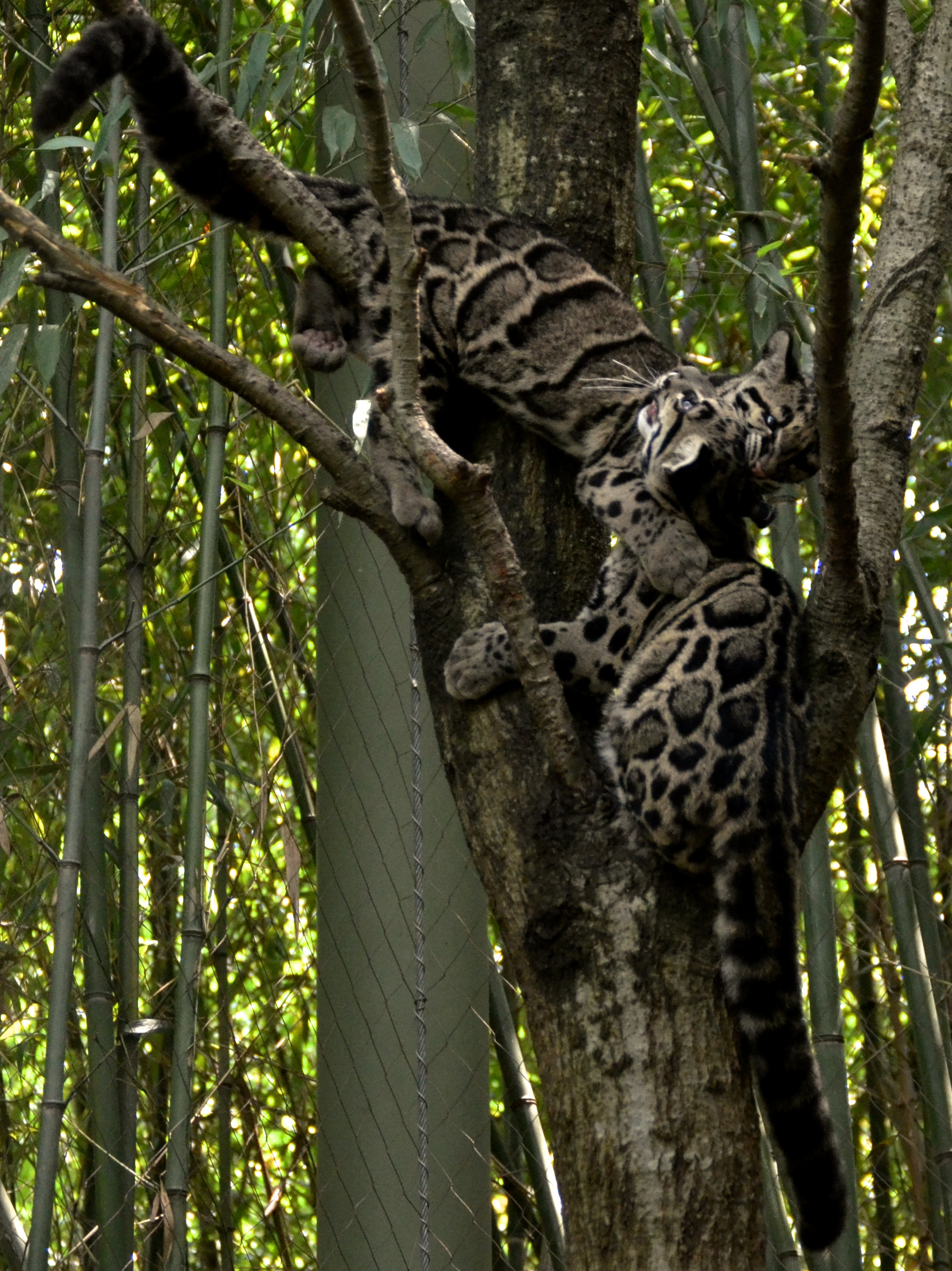 Two Clouded Leopard in Nashville Zoo.